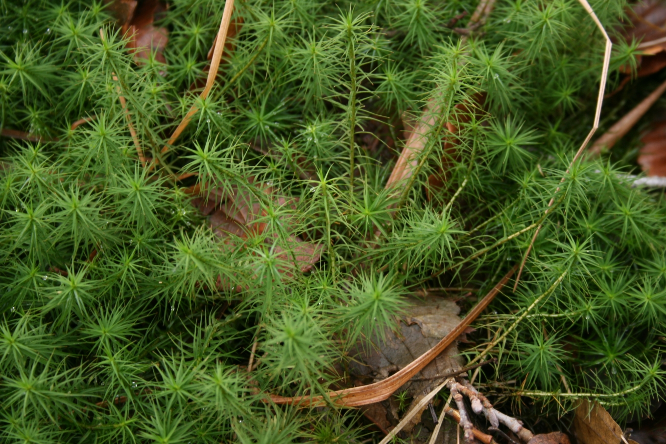 Polytrichum commune: Habit